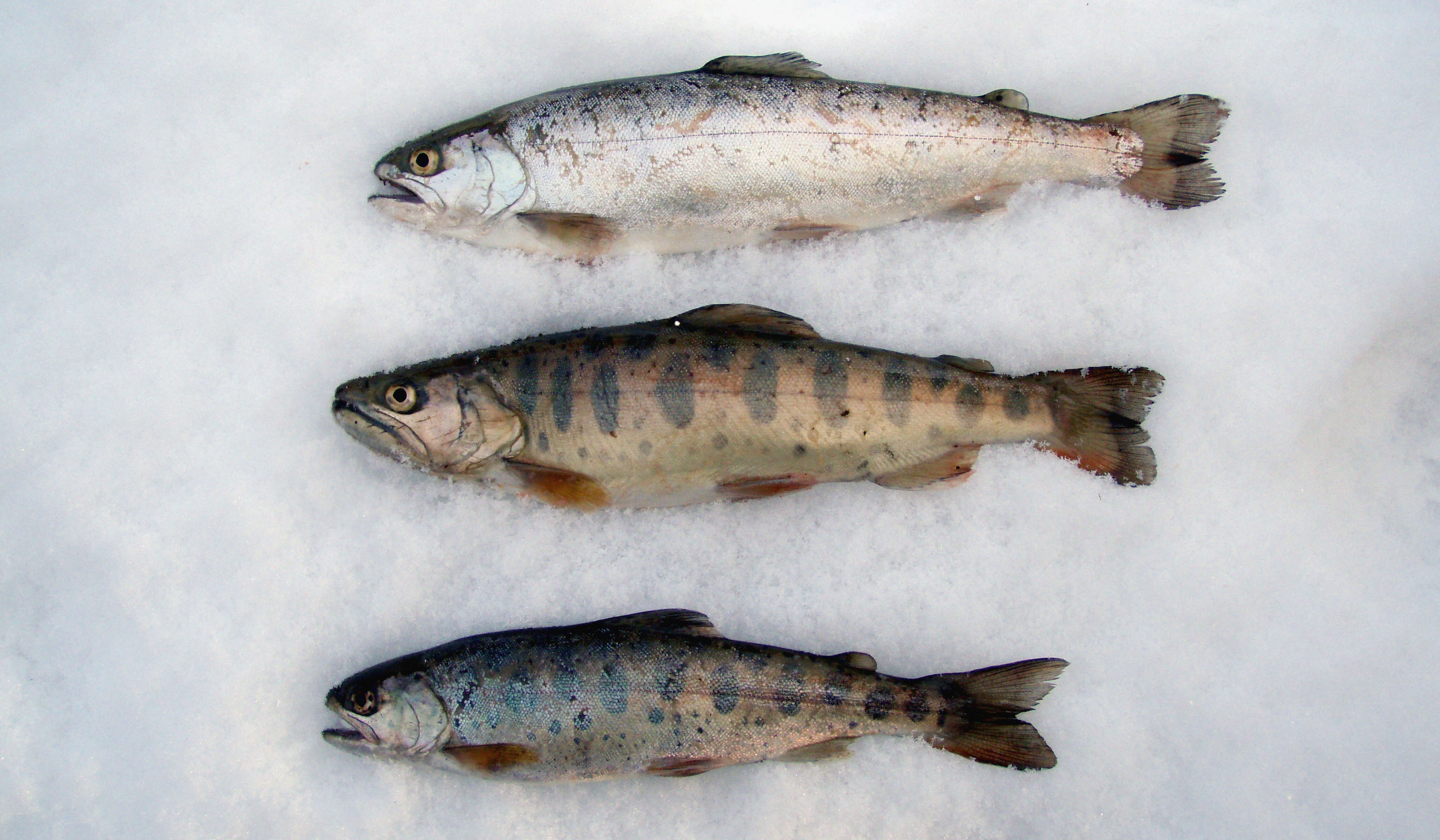 Oncorhynchus masou masou